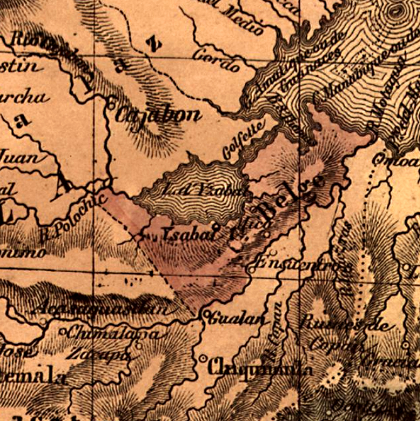 Fragment of "New Physical, Political, Industrial and Commercial Map of Central America and the Antilles: With a Special Map of the Possessions of the Belgian Colonization Company of Central America, the State of Guatemala" by N. Dally, 1845.